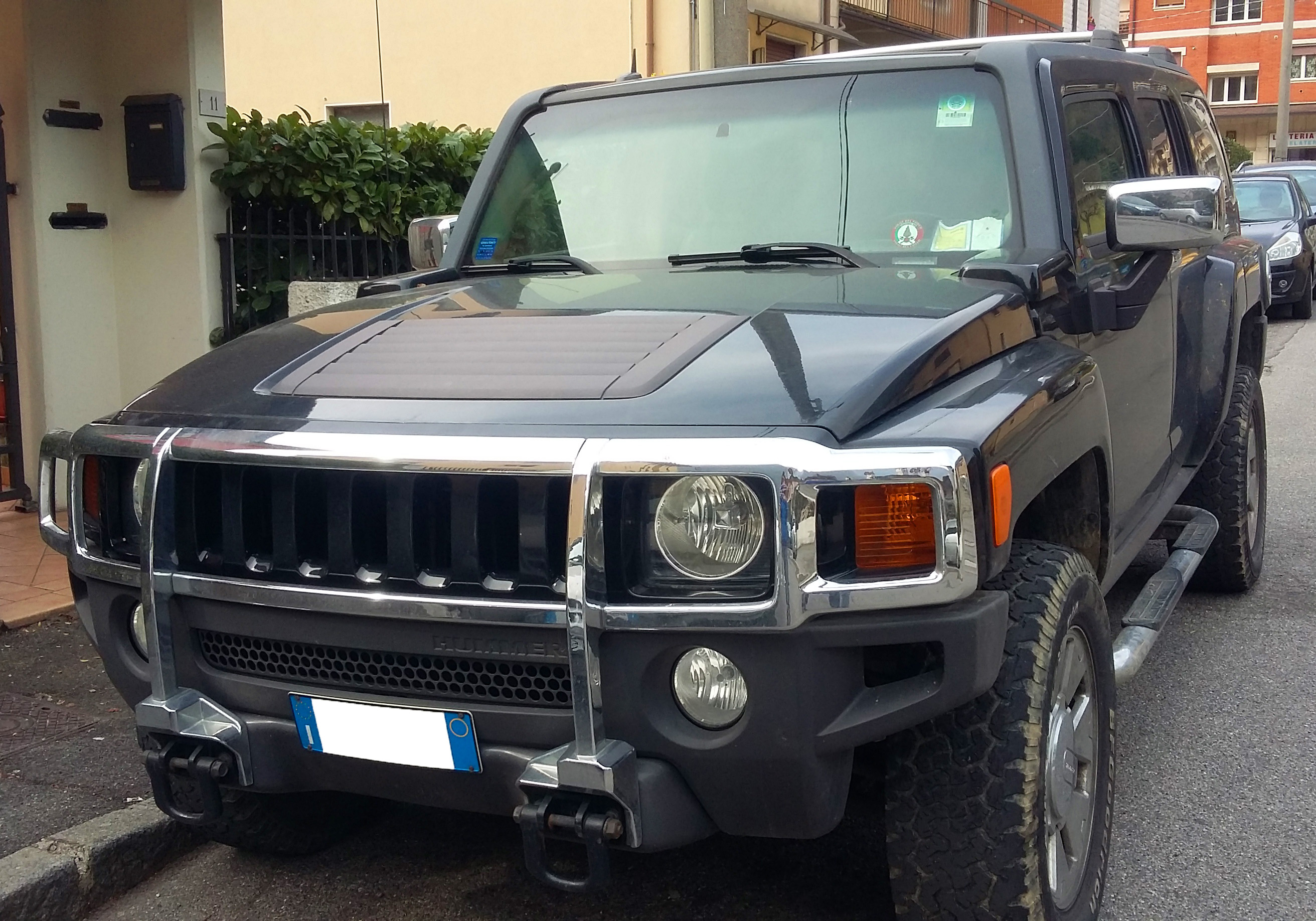 2005-2010 Hummer H3, front